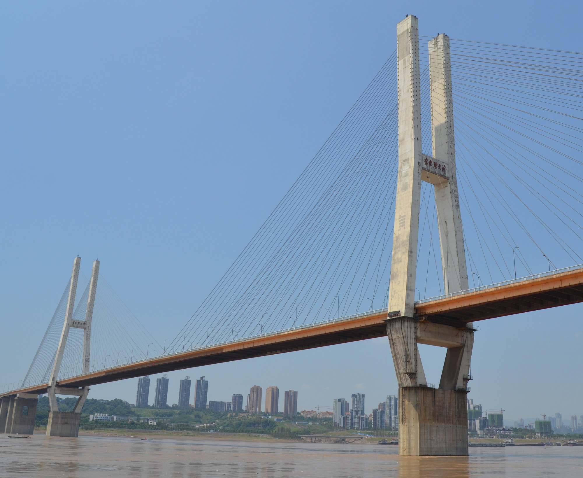 Lijiatuo Yangtze River Bridge, connecting Sandouping Town and Letianxia Town in Yiling District, Yichang City, Hubei, China